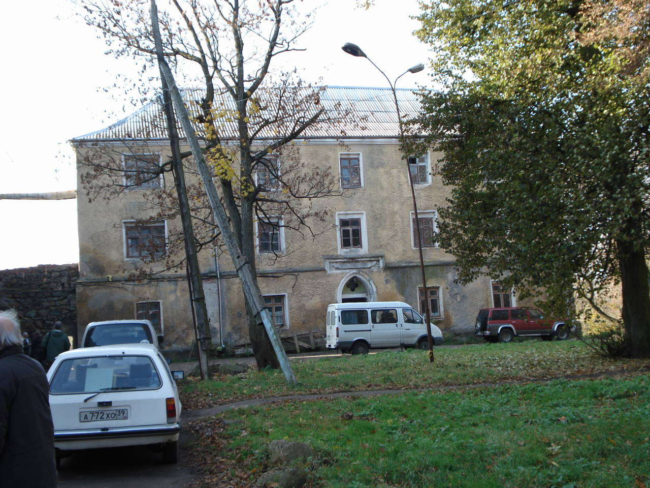 Waldau Castle in Nizowje (Oblast Kaliningrad), Western wing